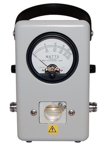 Bird Model 43 RF Wattmeter